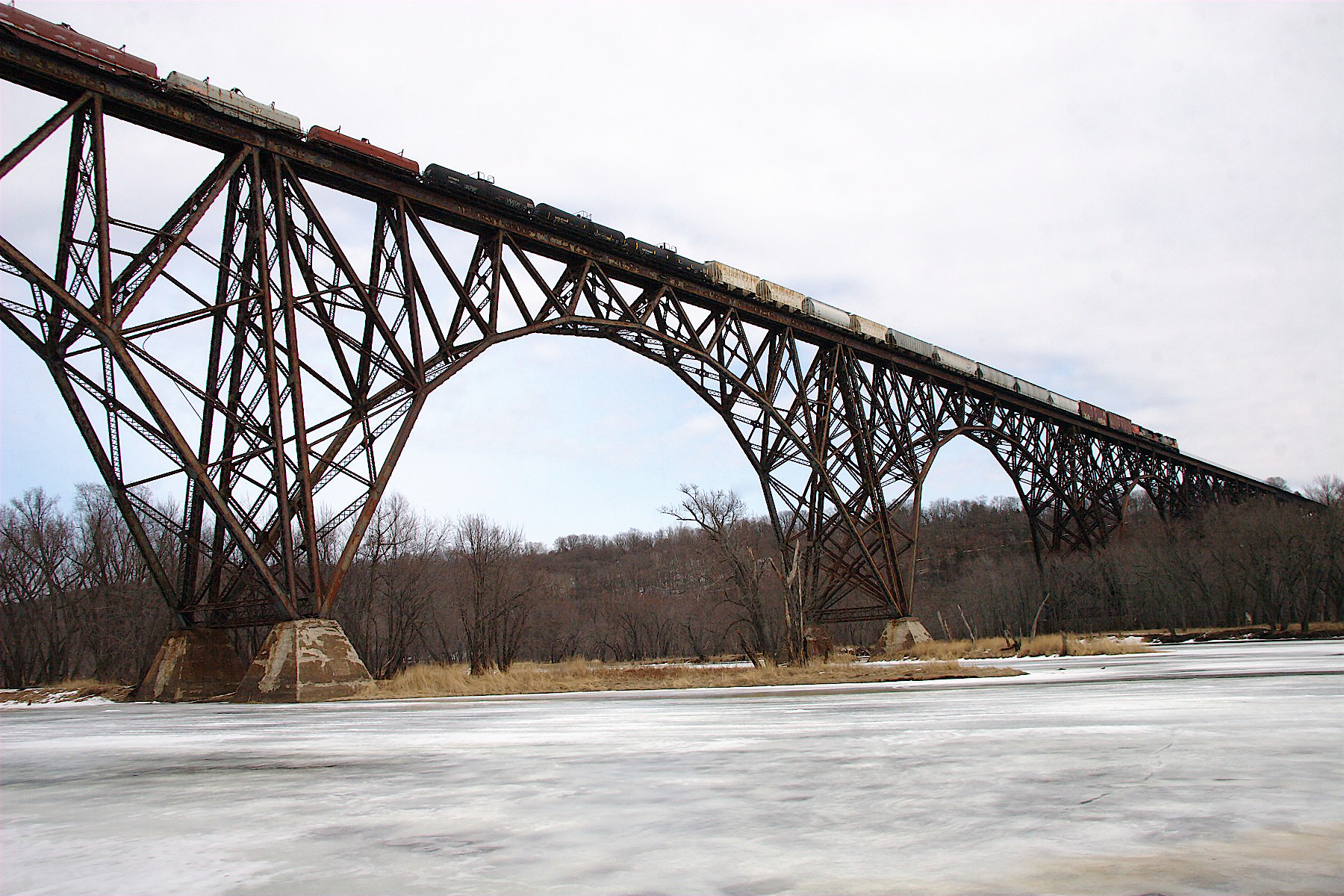 Train crossing the Arcola High Bridge on the St. Croix River, Minnesota, USA